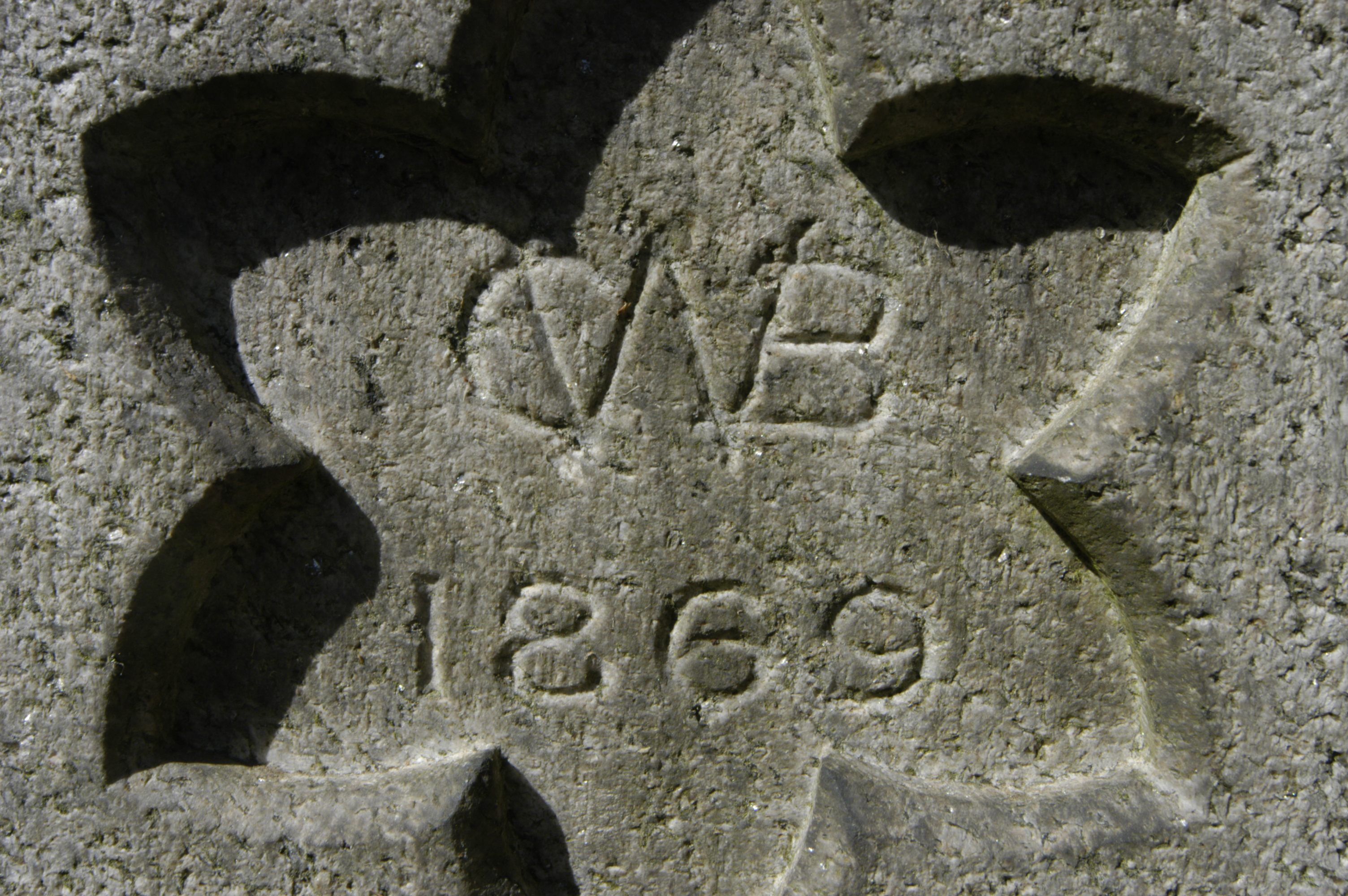 my digital photo (Rodolph (talk) 01:18, 15 February 2014 (UTC)) of Lady De Tabley's gravestone monogramme in Harlington, 1869, in 2013.